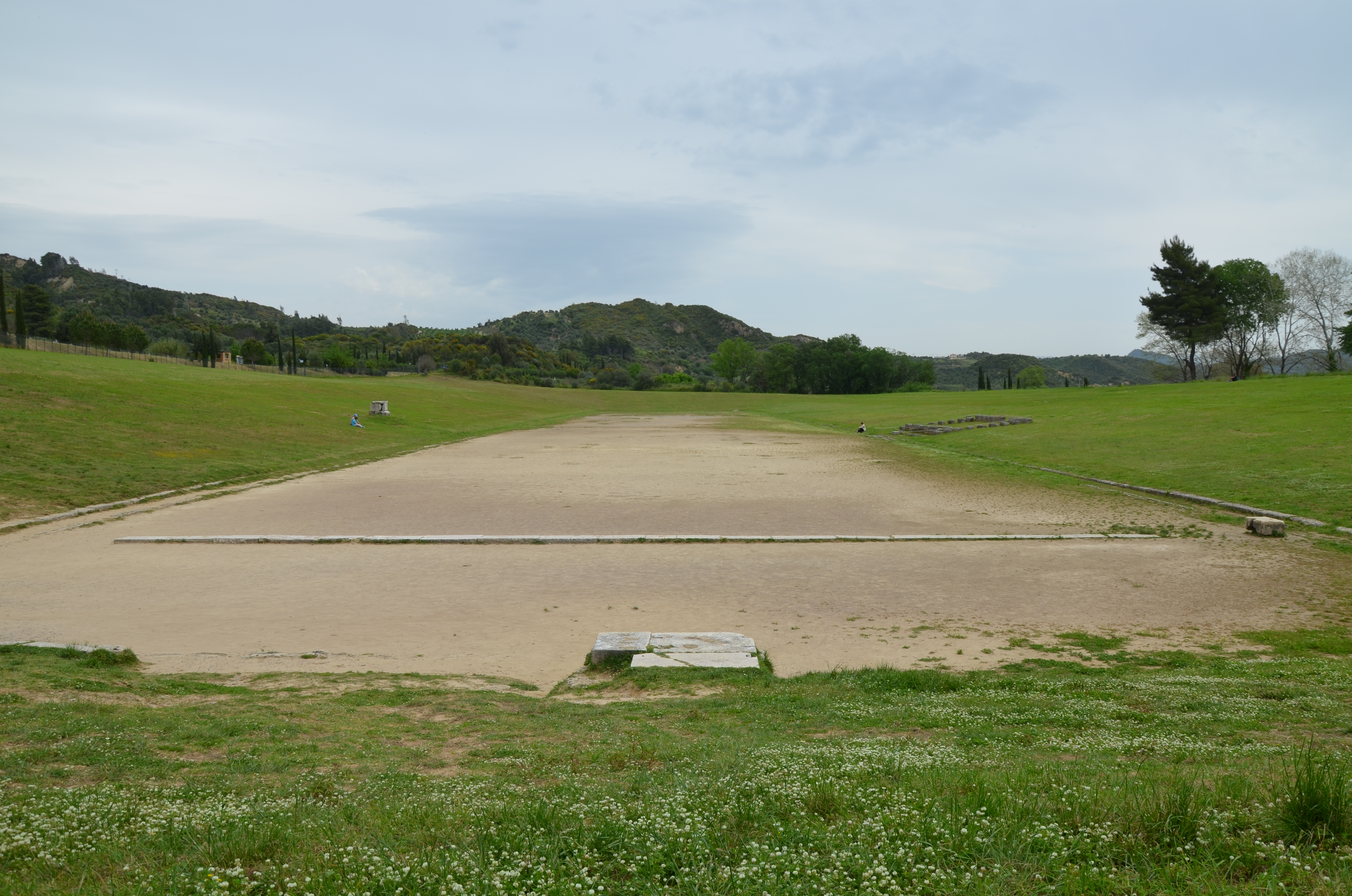 Track: 191.78 m from starting to finishing line; ca. 30 m wide